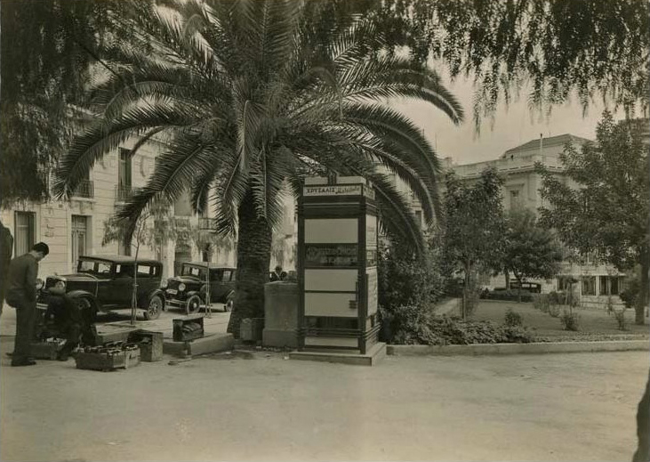 The Kolonaki square in the 1920ies. With a telephone box